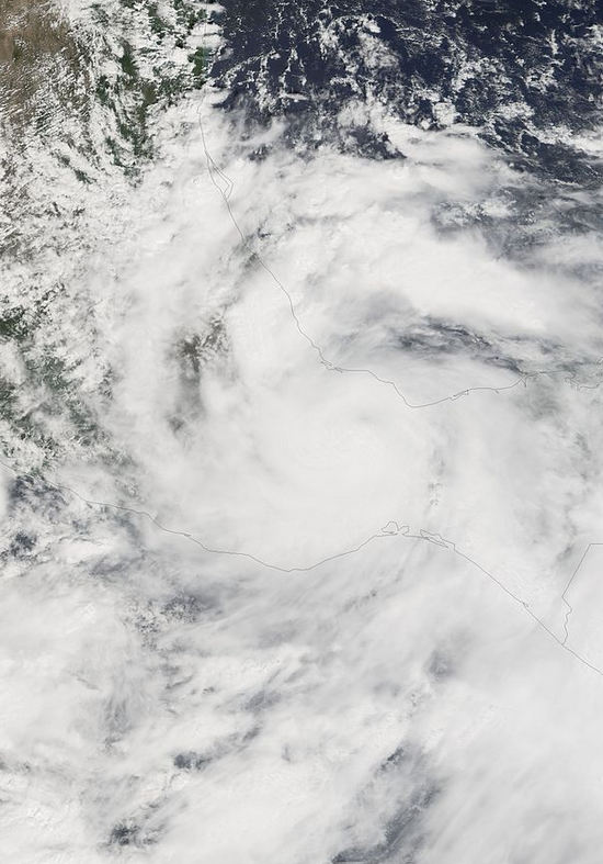 Stan was a Category 1 hurricane as it made landfall on Mexico’s Gulf Coast. It was an extremely deadly and destructive hurricane, part of the record-breaking 2005 Atlantic hurricane season. Stan caused 1,688 deaths in total with its impacts, mainly from flash flooding and mudslides. Hurricane Stan causeda total $3.96 billion in 2005 USD. Stan's extensive impacts caused the WMO to retire the name Stan in Spring of 2006.